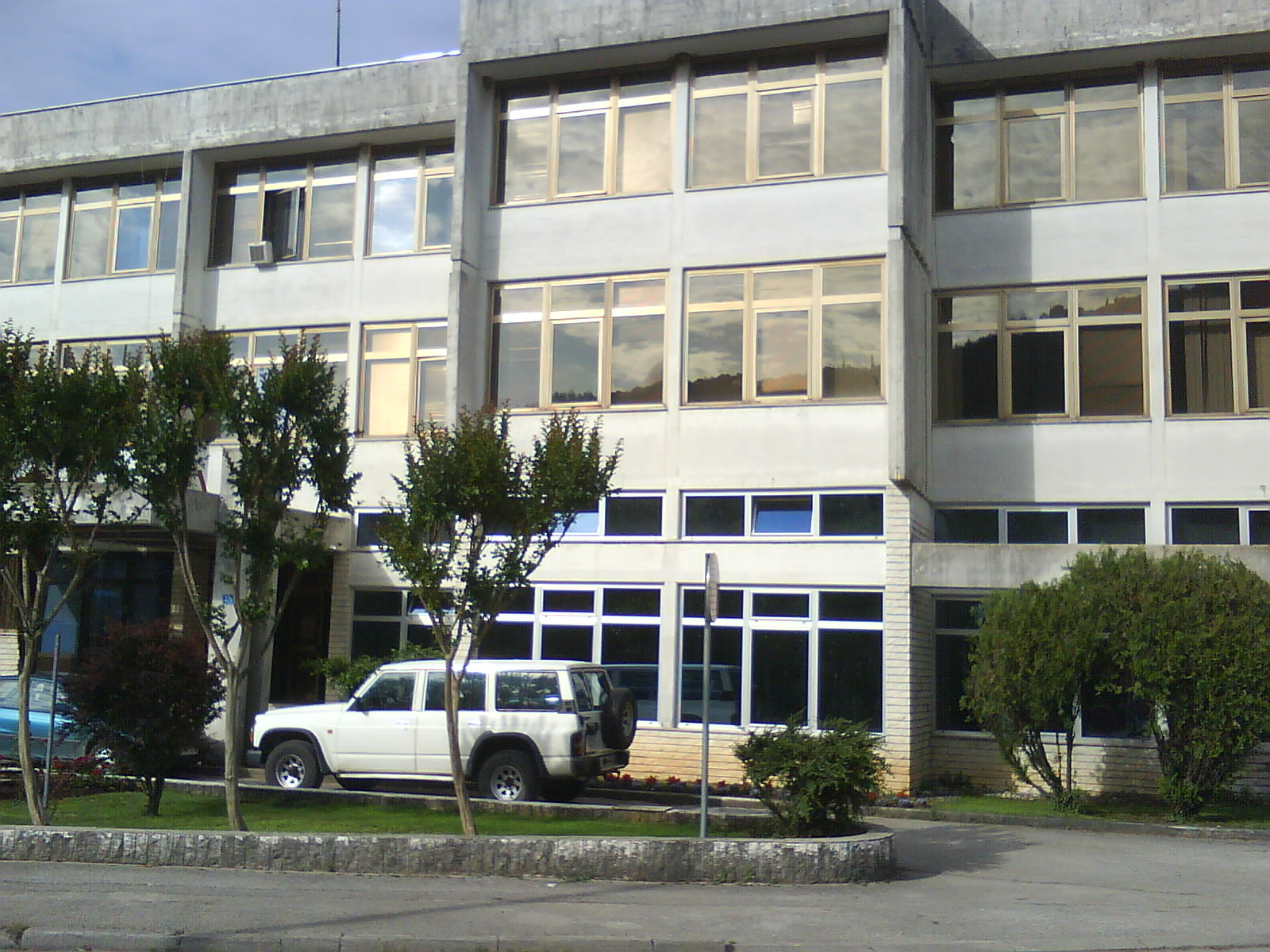 County building in Široki Brijeg